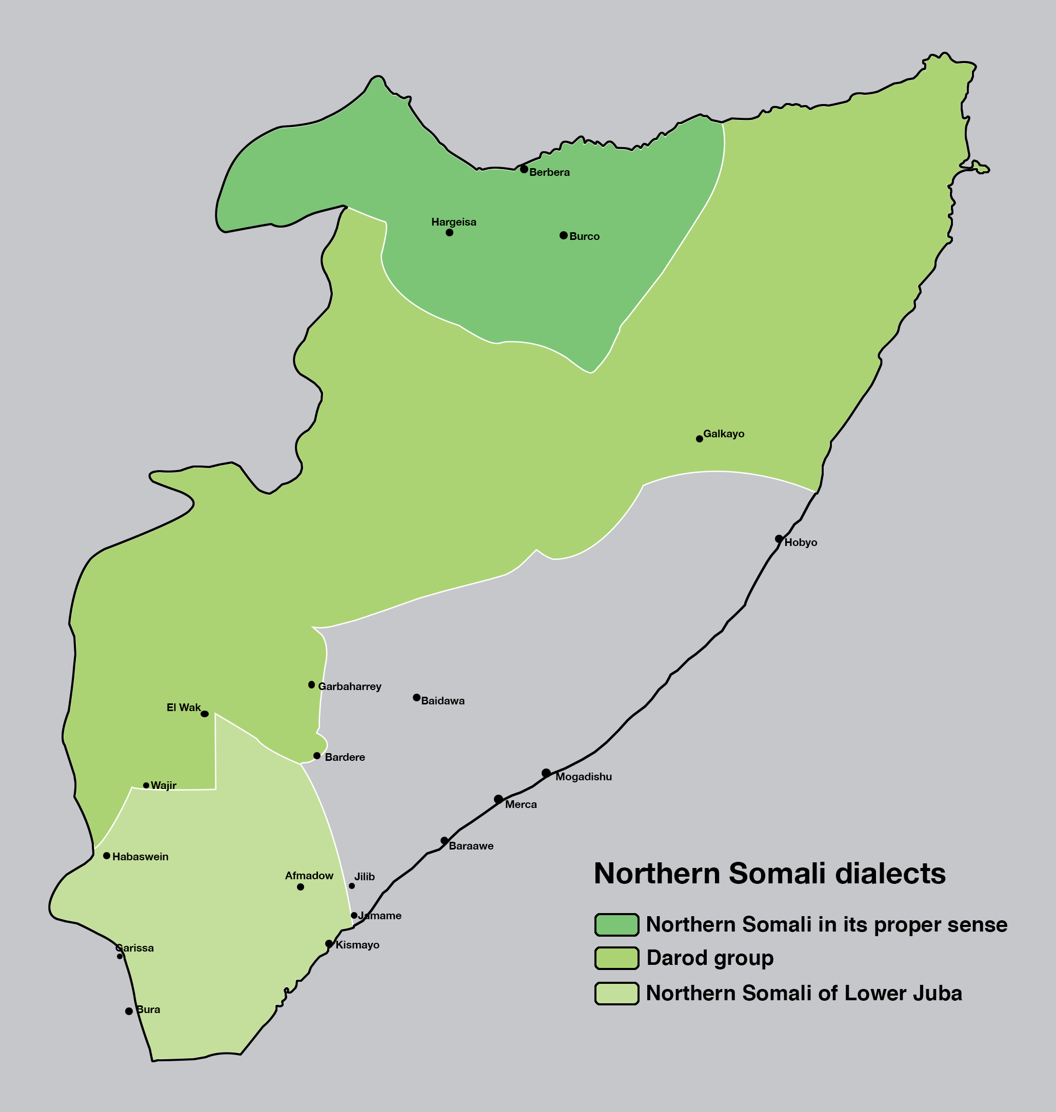 Subgroups of the Northern Somali Dialect (Nsom) based on research by Marcello Lamberti (1986).